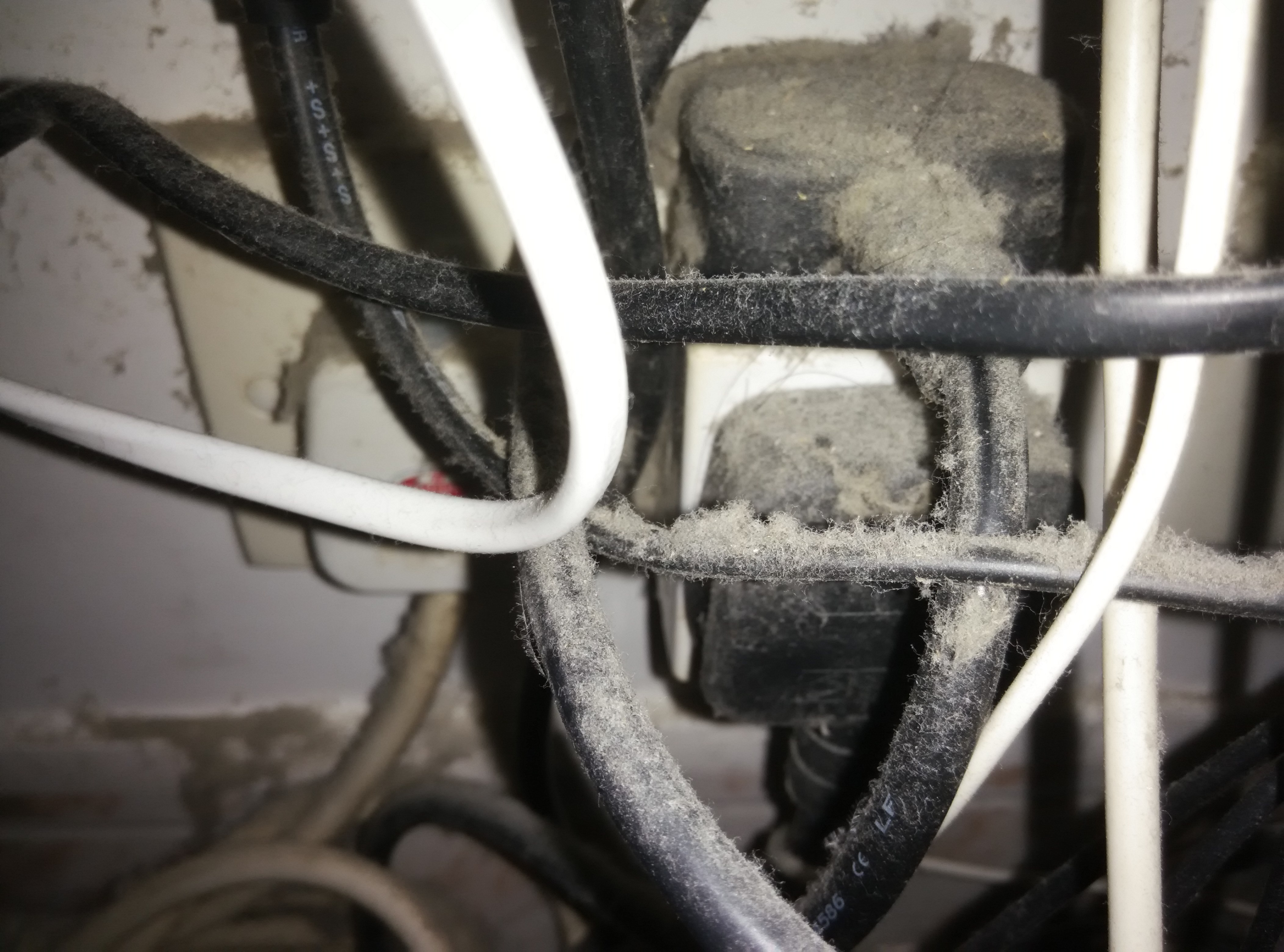 中文（香港）: Dusty electrical wires